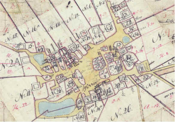 The Village of Vindinge southeast of Roskilde seen on a map from 1805